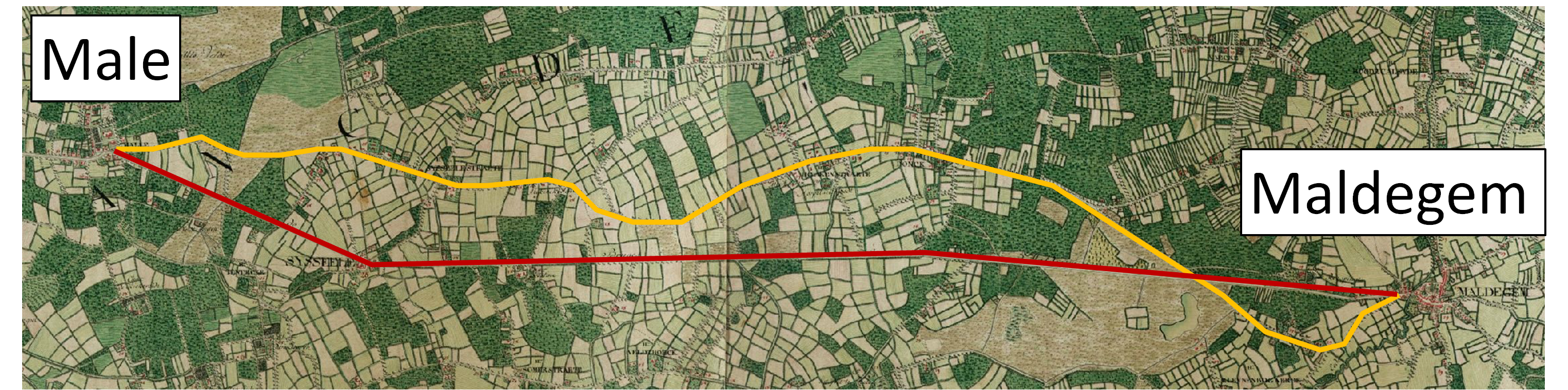 Antwerpse Heriweg tussen Male en Maldegem. Bovenop een uitsnede van de Ferrariskaart